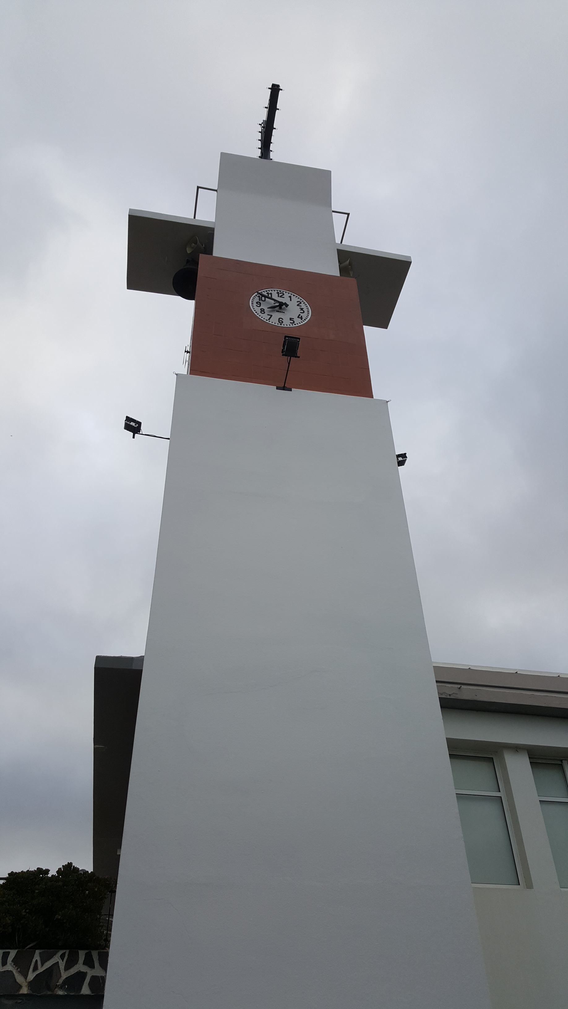 Clock Tower of the Church of Gaula